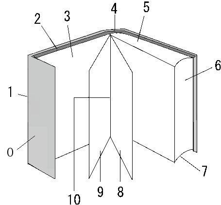 Alternative version of pic showing book parts